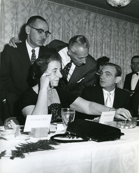 Henry C. Bernstein (center, bending down) talks with Golda Meir and others at United Jewish Appeal of Greater New York’s Inaugural Dinner. Photographer: Emerich C. Gross Date: March 17, 1959 Medium: Black and white photographic print Repository: American Jewish Historical Society Parent Collection: United Jewish Appeal-Federation of New York Collection, 1915-2004 Call number: I-433 The original photograph was found in Subgroup II: United Jewish Appeal of Greater New York, Series 3 Public Relations, Subseries I. Photographs, Box 4 in a folder titled “Inaugural Dinner, 1959.” See more information about this image and the collection by viewing the finding aid: Guide to the United Jewish Appeal-Federation of New York collection. Rights Information: No known copyright restrictions; may be subject to third party rights. For more copyright information, click here. To inquire about rights and permissions, or if you have a question regarding the collection to which the image belongs, please contact the Reference Department of the American Jewish Historical Society by email. Digital image created by the American Jewish Historical Society for display on Flickr.